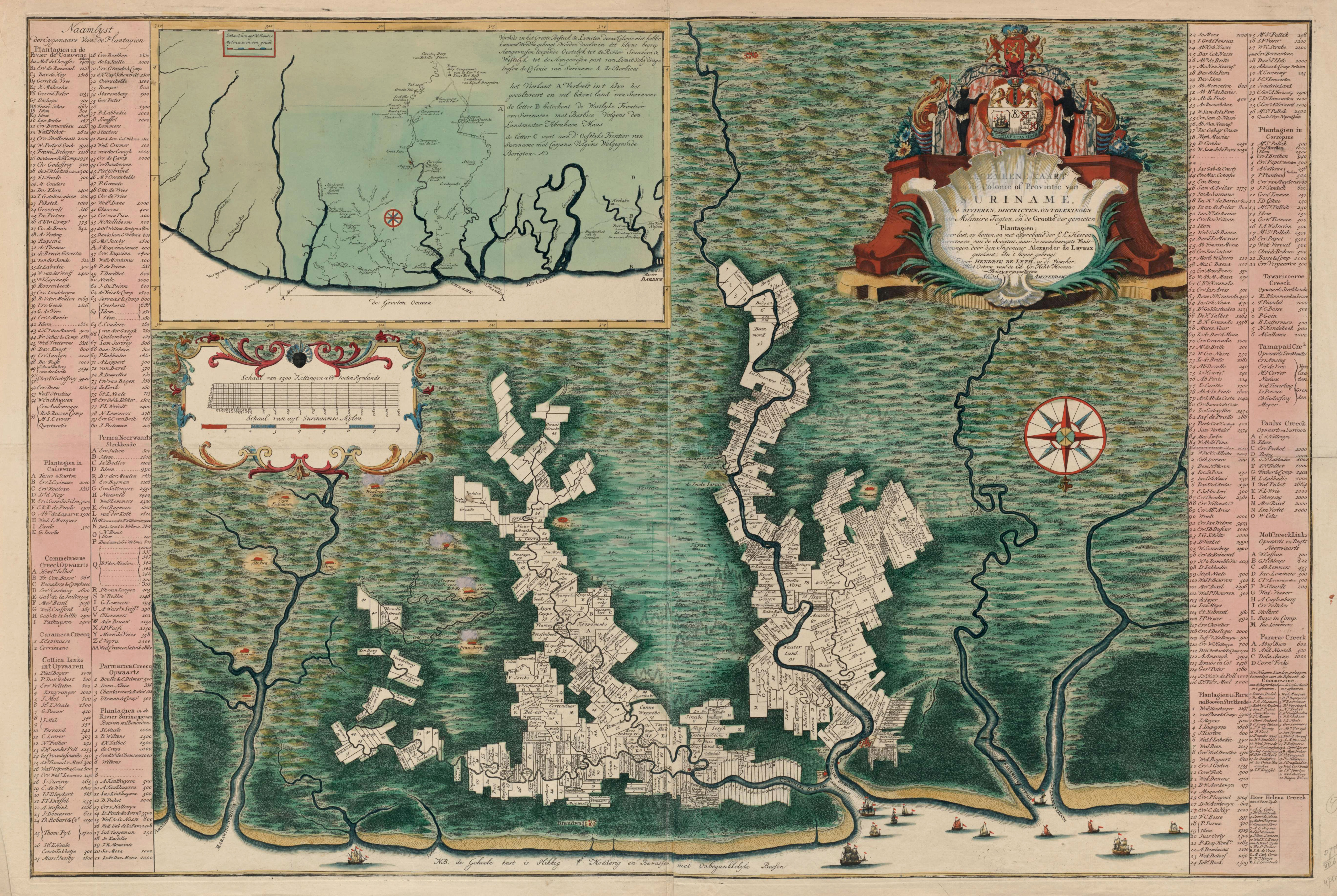 A chart of Suriname, indicating the different plantations and their owners. Consists of two glued-together sheets. Completed with funding by the Directeurs van de Societeit.